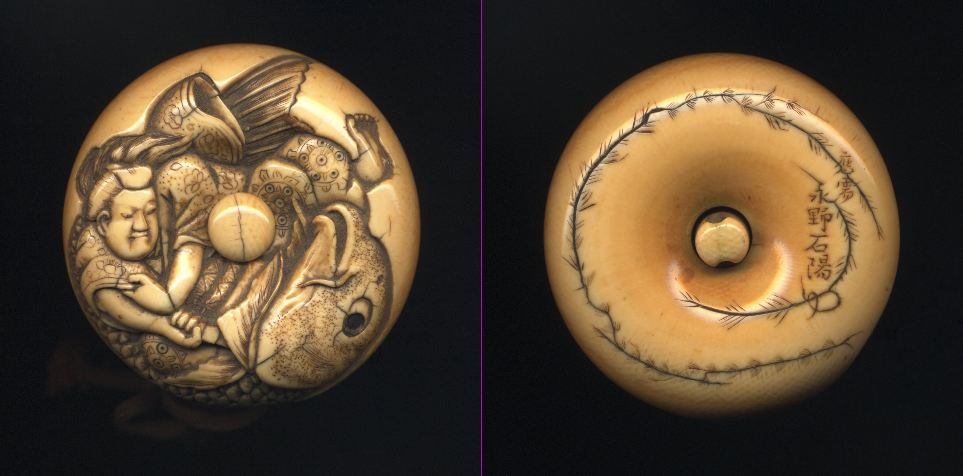 This 19th century manju netsuke depicts a famous episode in the life of Kintaro, the golden boy, a legendary eleventh-century hero, in which he killed a giant carp. The netsuke is ivory, 2.1" (53mm) in diameter. and 0.78" (20mm) thick. For the inscription 応需 Ôju significating made on demand, on a request/order. Then the signature (I didn’t find out anything about on the Frederic Meinertzhagen Card index nor in the George Lazarnick, Netsuke and Inrô artists and how to read their signatures) 永野 Nagano (or less probably Eïno) Sekiyô 石陽, + sort of initials, a stylized and simplified ideogram of an artist (here resembling to a small bow/rope winding around the branch). Denis Naoki BRUGEROLLES, Galerie YAMATO, Paris (France), Japanese works of Art since 1979 To precise ivory if needed, clearly elephant. And talking about the material, on that netsuke we can see the natural cracks wich are very commonly found (not to say always) on this material, wich have been hidden and well employed by engraving that coiled branches of tree.